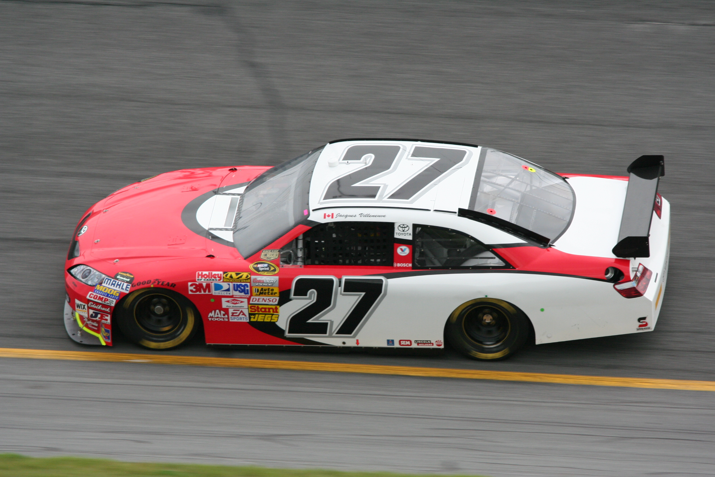 Jacques Villeneuve racing in the NASCAR Sprint Cup Series in 2008.